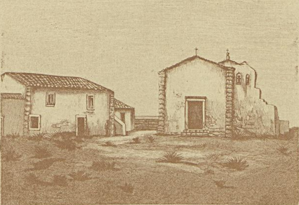 Drawing of the Nossa Senhora da Graça chapel and a house, inside the Fortress of Sagres, in Algarve, southern Portugal. This image was published on the Occidente magazine No. 548, of the 11th March 1894, and scanned by the Hemeroteca Municipal de Lisboa.